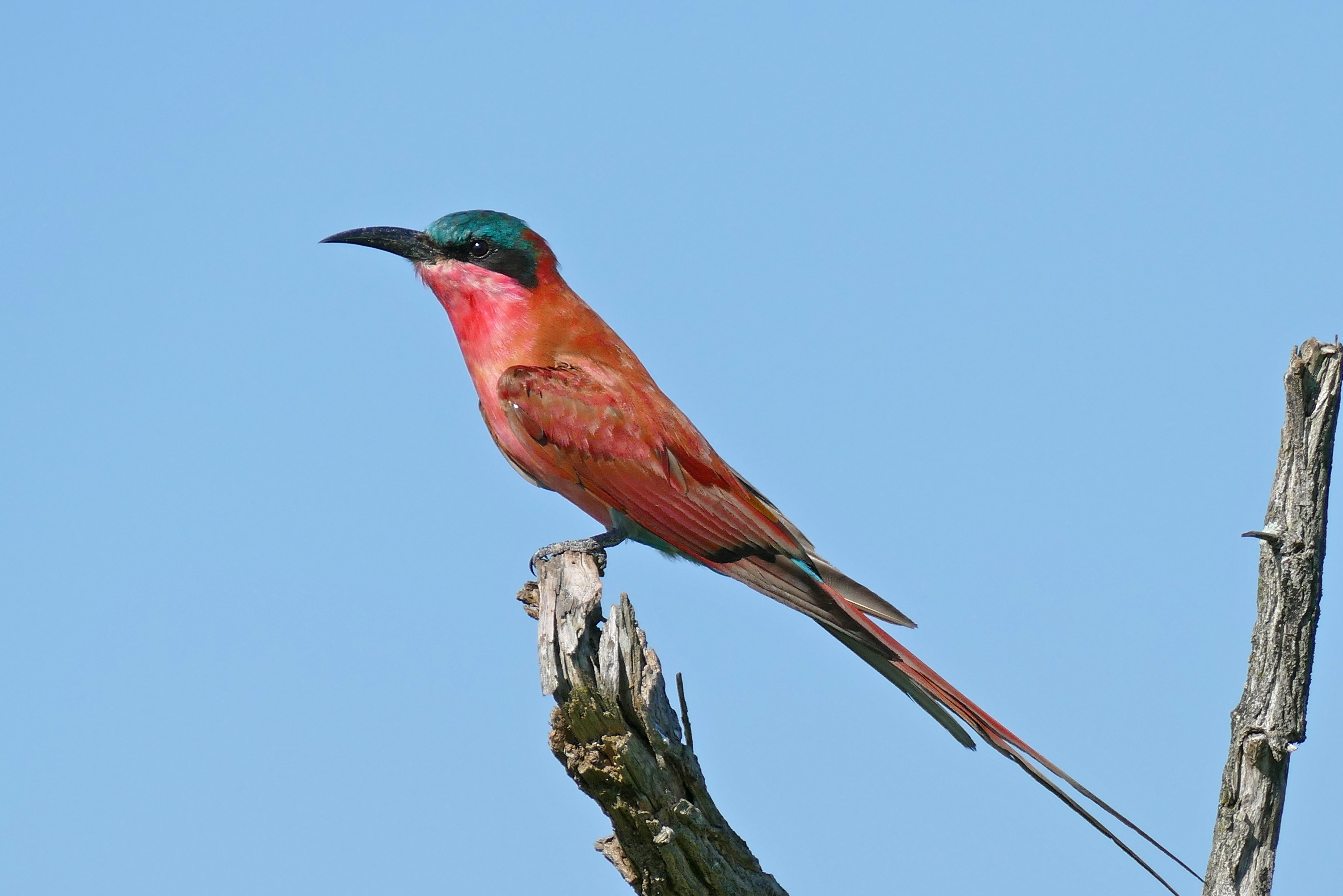 H10 Road North of Lower Sabie, Kruger NP, SOUTH AFRICA